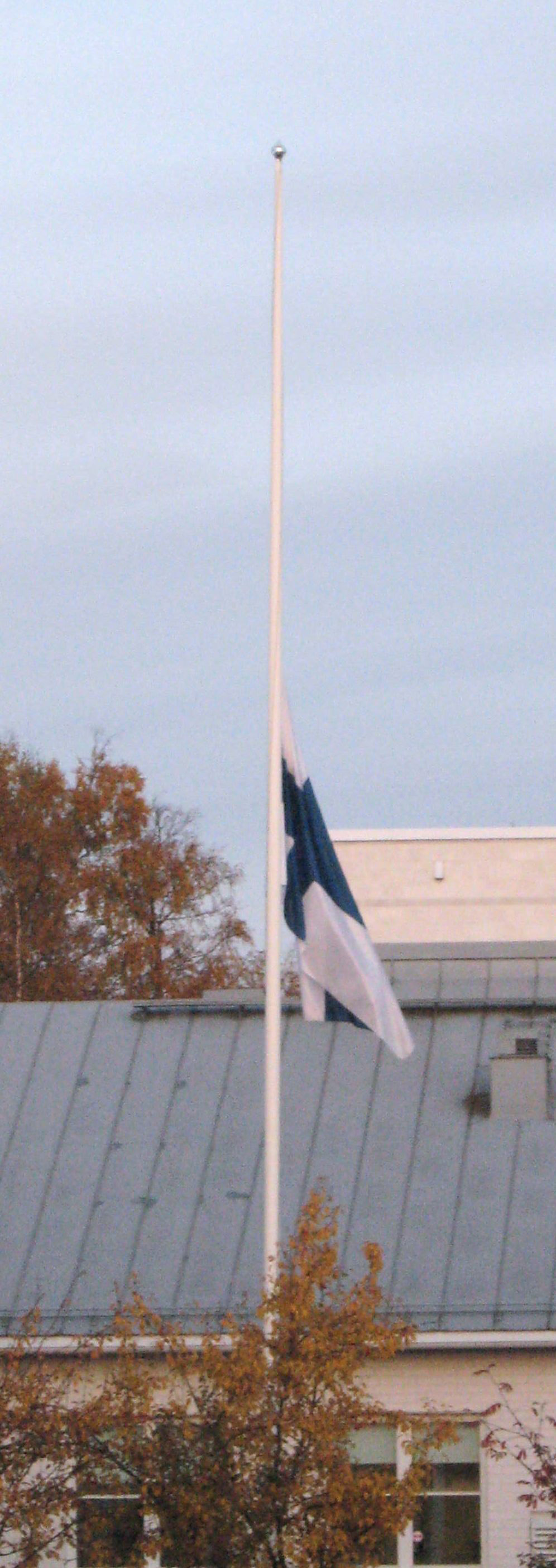 Flag of Finland in front of Kauhajoen koti- ja laitostalousoppilaitos school (in Kauhajoki, Finland) one day after shooting incident.